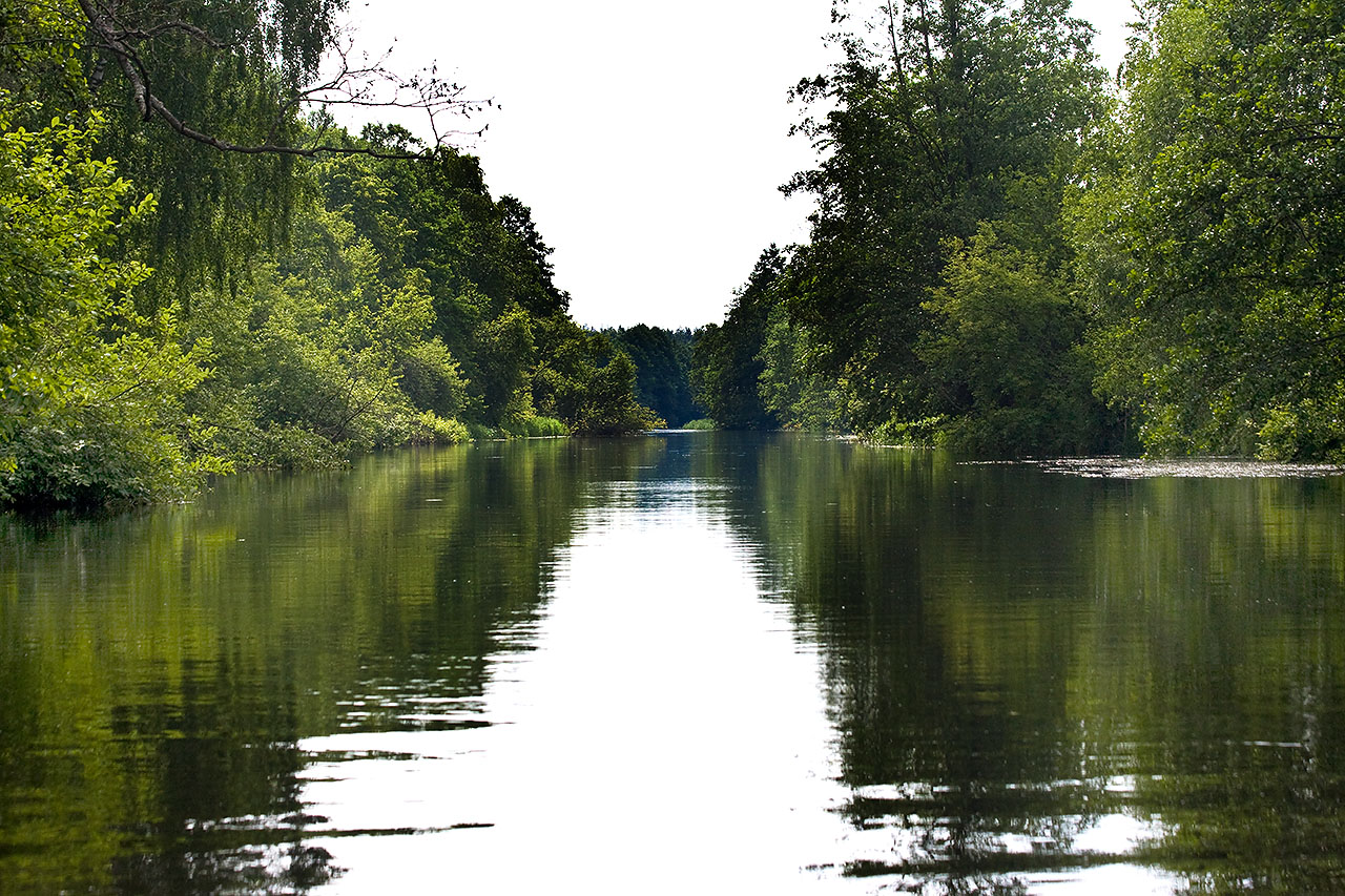 Bobr River, Minsk Region, Belarus